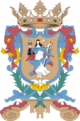 Coat of arms of Guanajuato